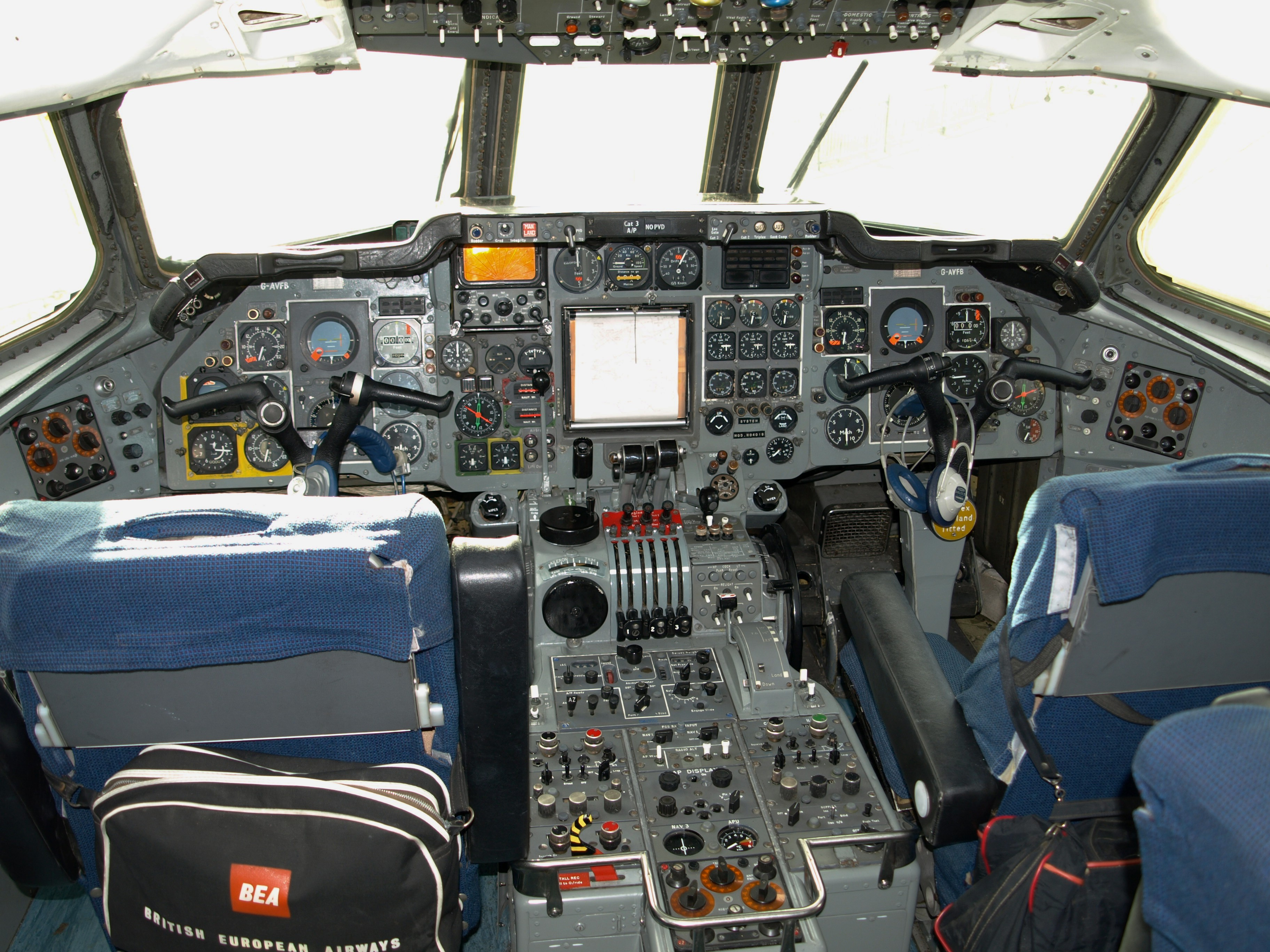 Flight deck of Hawker Siddeley Trident airliner, IWM Duxford.